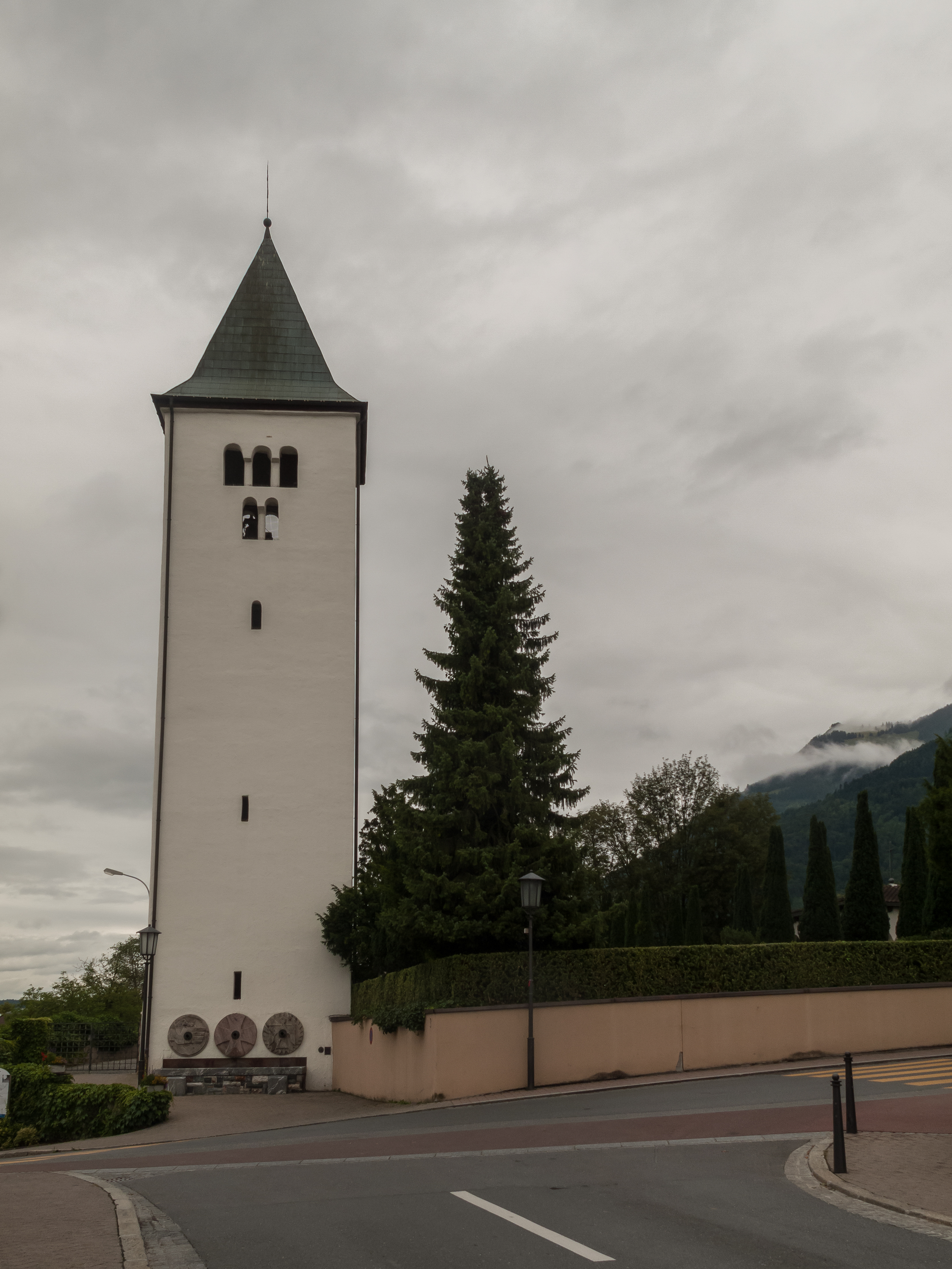 Schaan, church: die Alte Pfarrkirche Sankt Laurentius